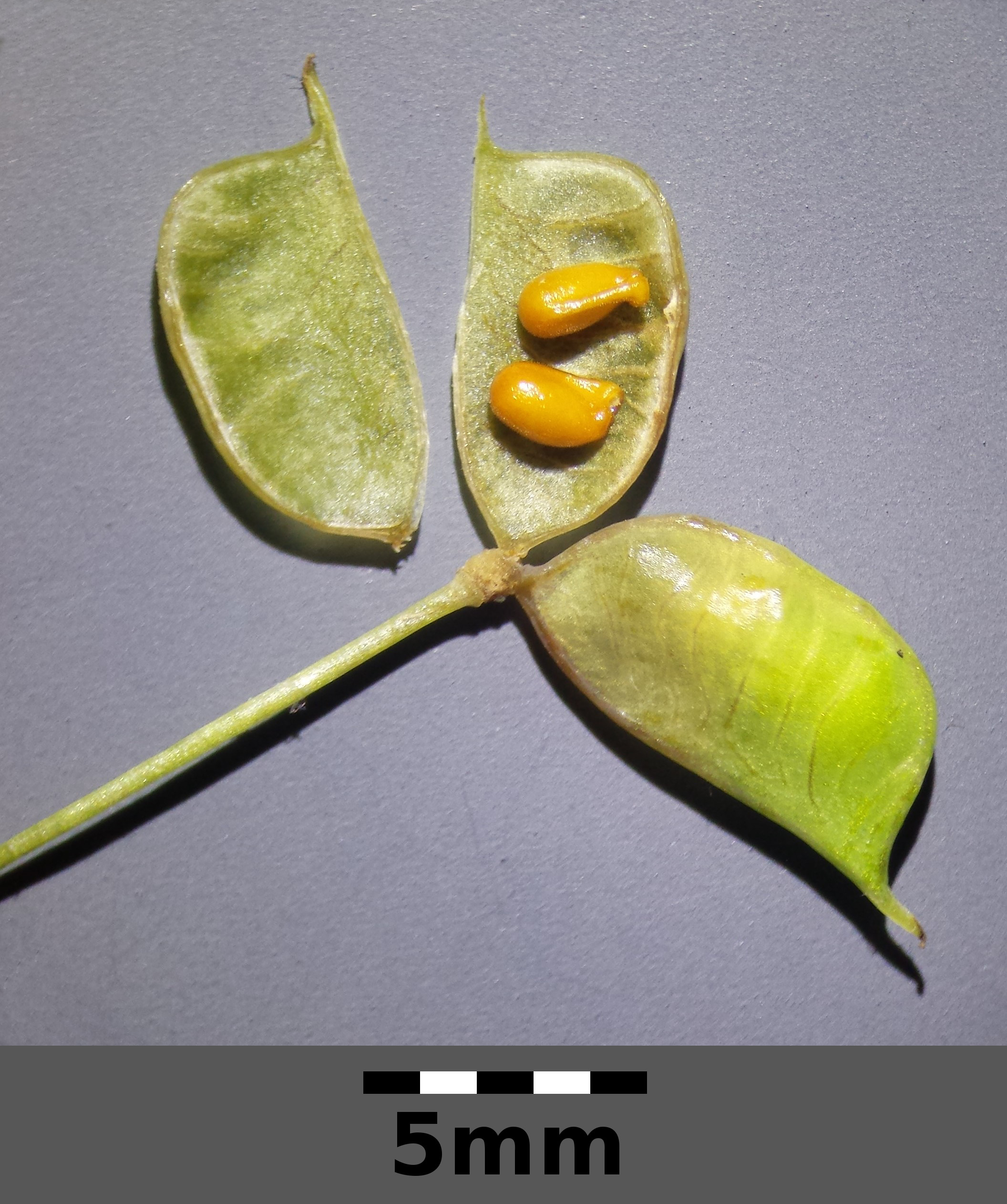 Fruit, partly opened Taxonym: Isopyrum thalictroides ss Fischer et al. EfÖLS 2008 ISBN 978-3-85474-187-9 Location: Rohrwald, district Korneuburg, Lower Austria - ca. 275 m a.s.l. Habitat: Carpinion betuli